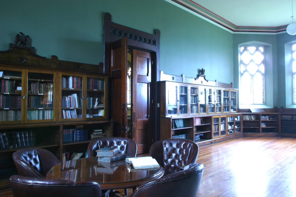 Library of St John's College, University of Sydney